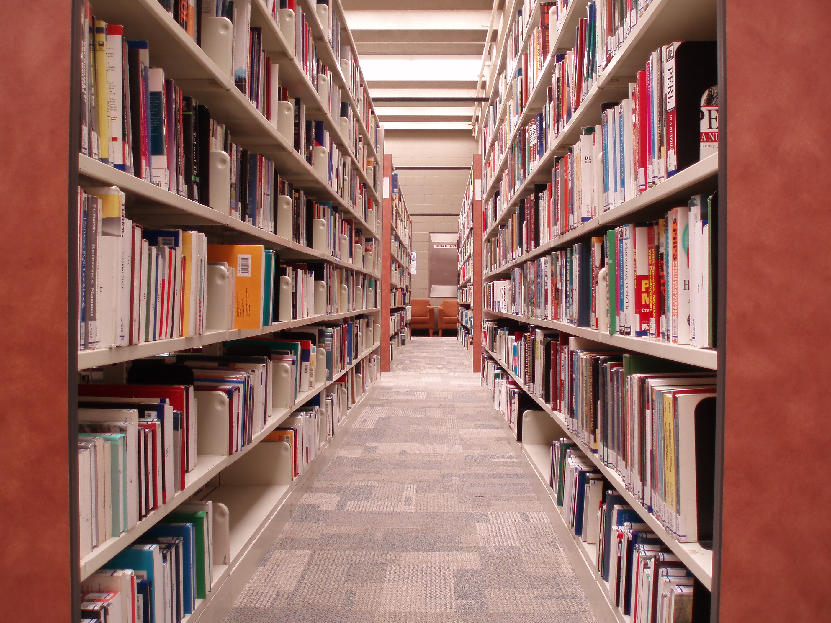 Steacie Science and Engineering Library at York University